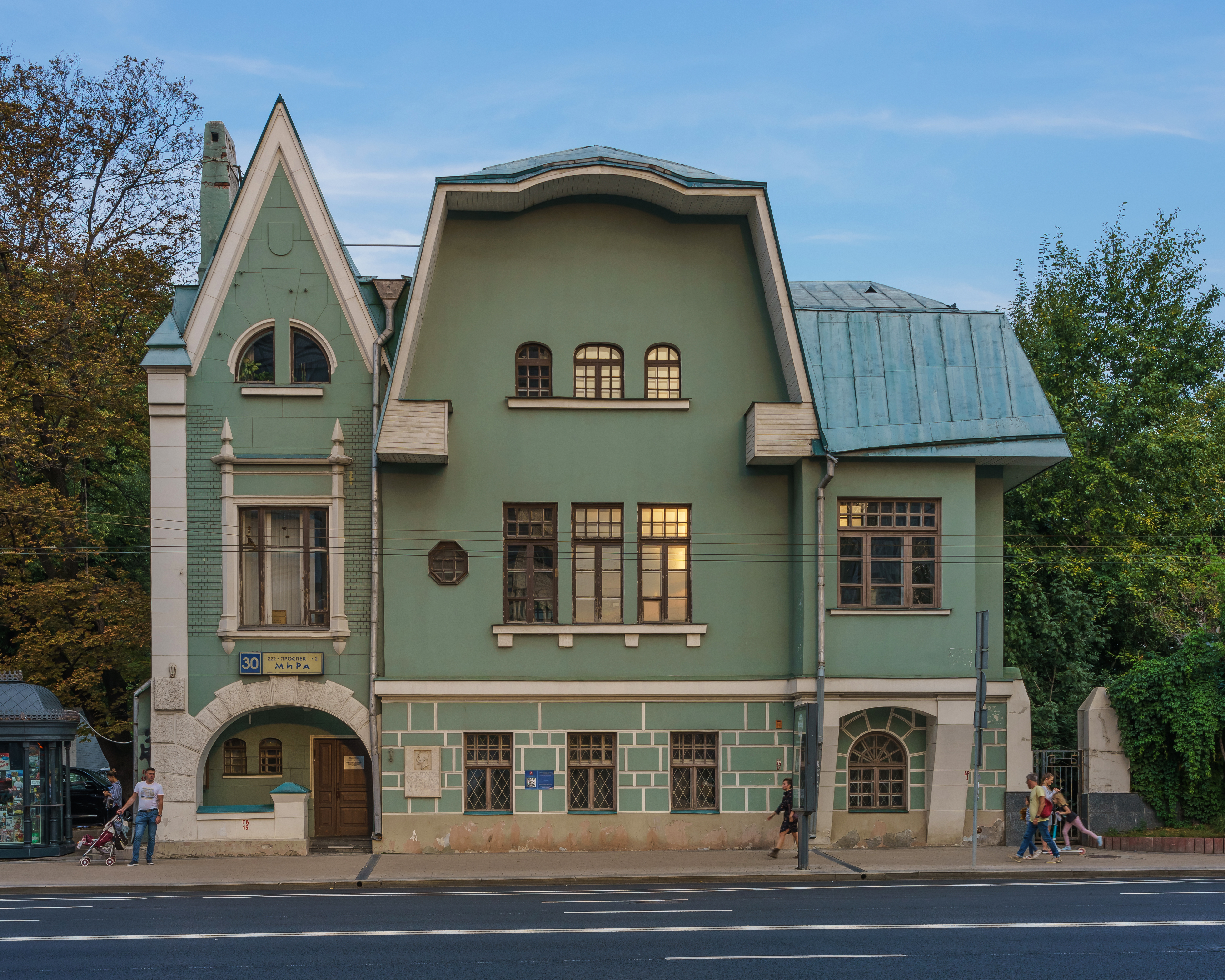 House of Valery Bryusov in Moscow, Russia.